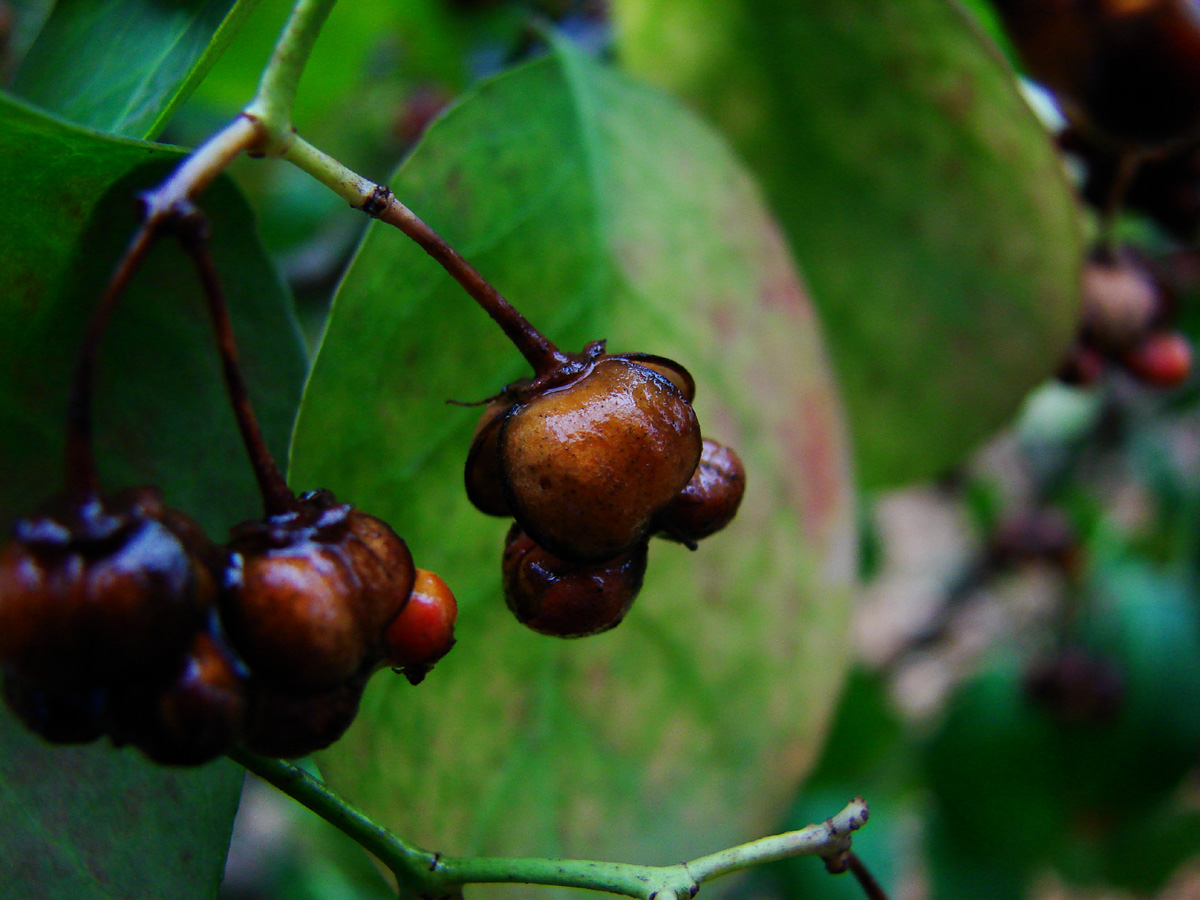 Euonymus europaeus European Spindle after some rain